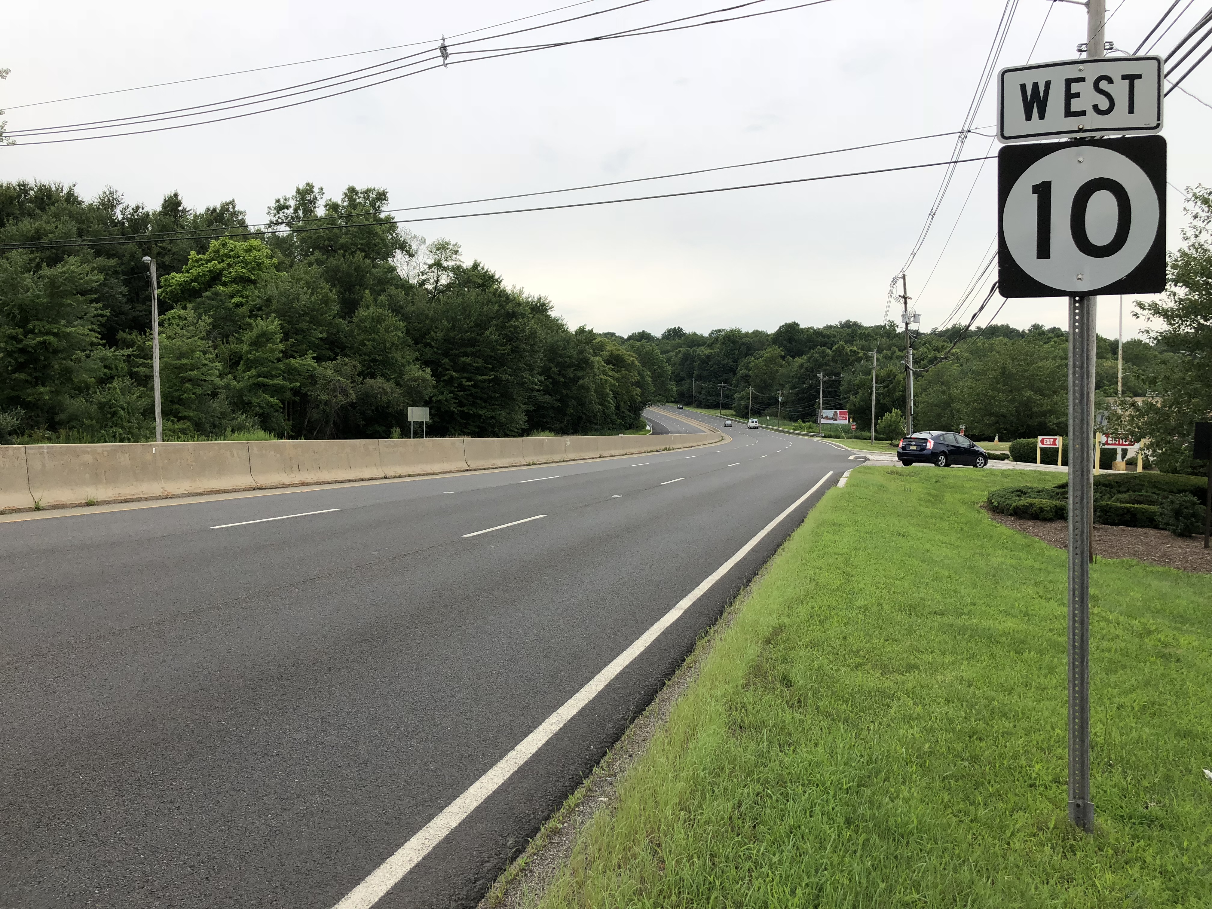 View west along New Jersey State Route 10 just west of Morris County Route 665 (Salem Street) in Randolph Township, Morris County, New Jersey